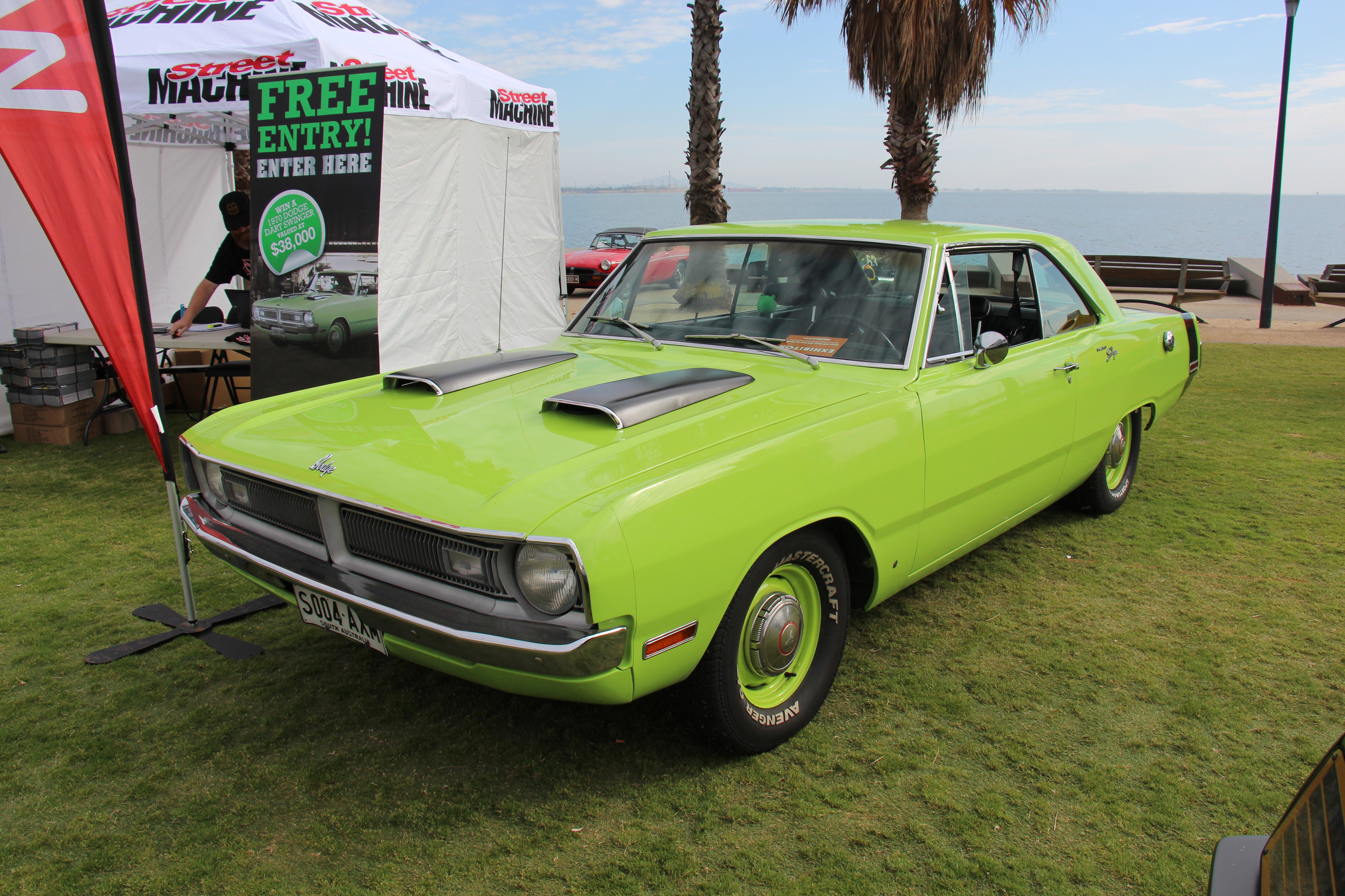 The 1st Dodge Dart was introduced as a lower-priced, shorter wheelbase, full-size Dodge in 1960 and 1961, it became a mid-size car for 1962, and finally was a compact from 1963 to 1976. The Darts look was refreshed for 1970, front and rear changes For 1970, the Swinger name was applied to all the Dart 2 door hardtops except in the high-line Custom series The performance model in the Dart line for 1970 was the Swinger 340 2-door hardtop. The 1970 Swinger 340 came with functional hood scoops with 340 emblems